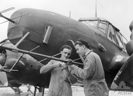 AWM Caption: Laverton, Vic. 1945-04-06. Corporal John Choropodski (left) and Leading Aircraftman Laurie Bennett make a minor adjustment to the air-to-surface vessel installation (airborne radar search apparatus) on an Avro Anson aircraft of No. 67 Squadron RAAF.